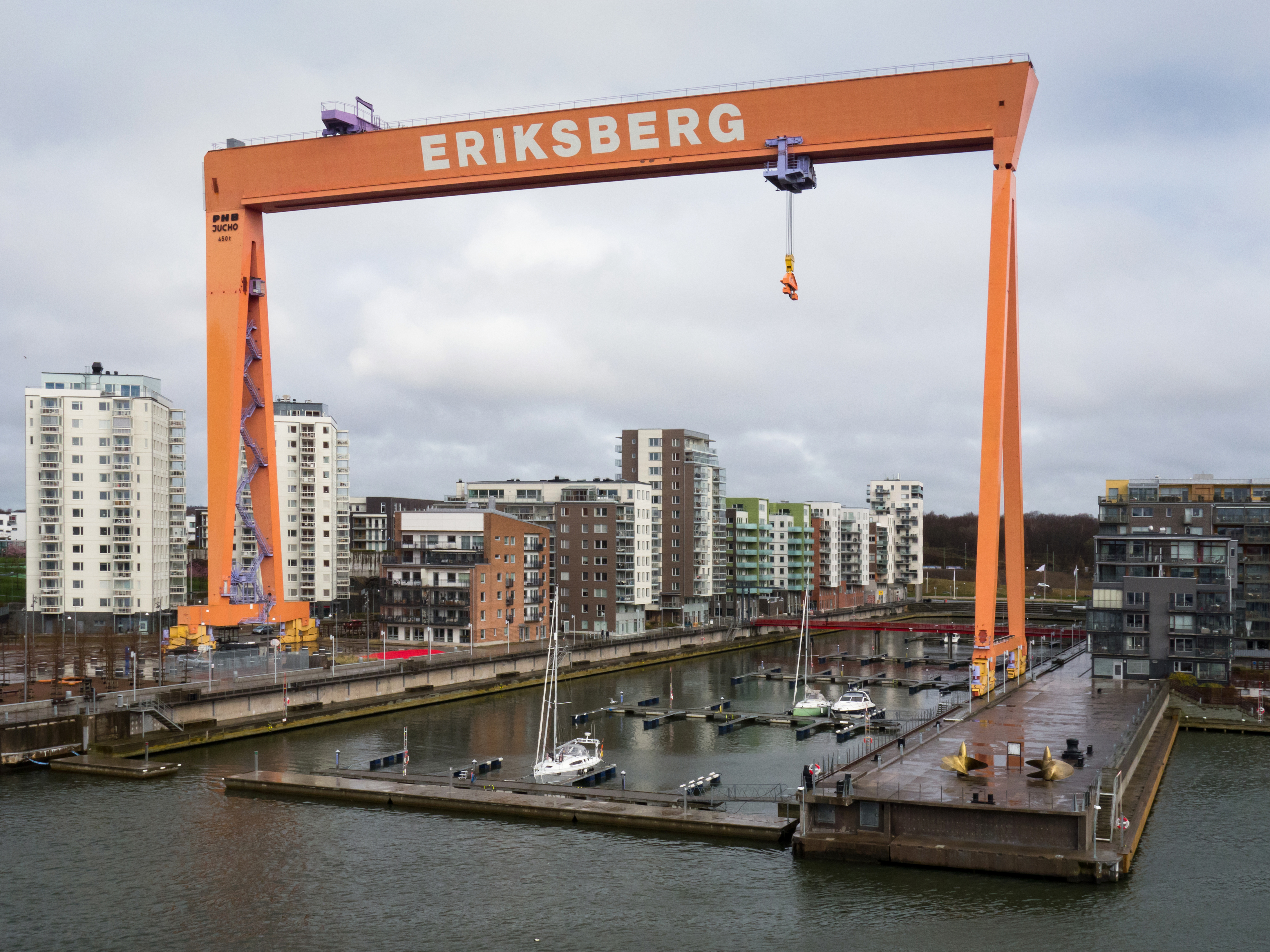 The crane at the former Eriksberg Ship Yard on the North shore of Göta Älv, Gothenburg, Sweden, as seen from the upper deck of Stena Danica.